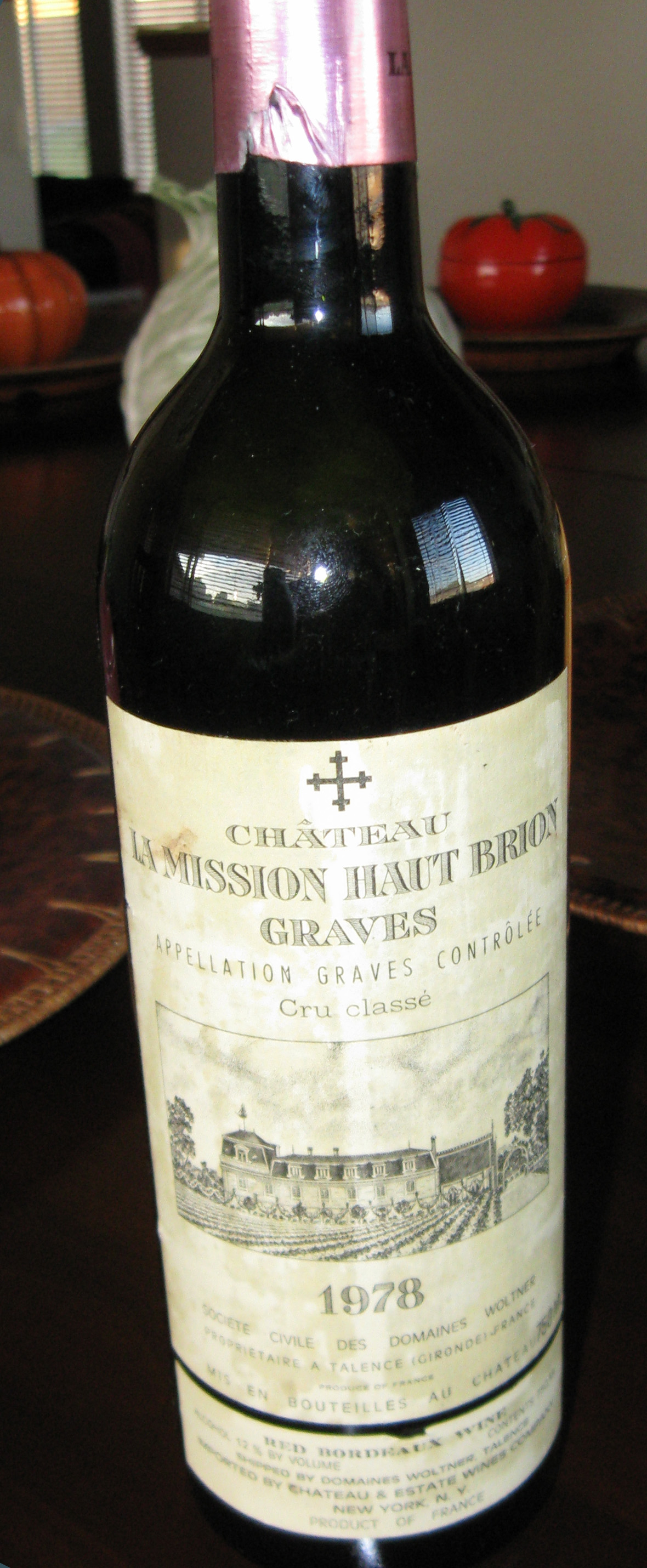 Château La Mission Haut-Brion 1978 label